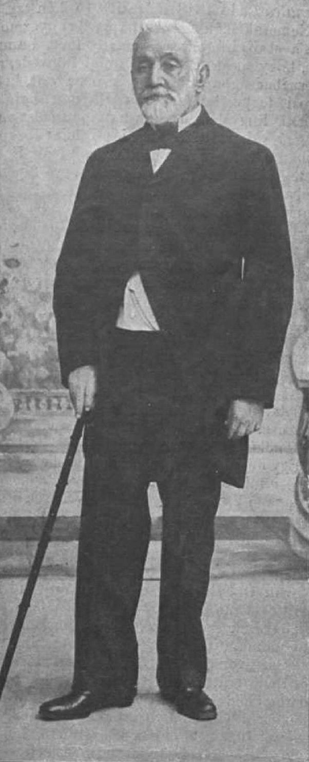 János Czetz